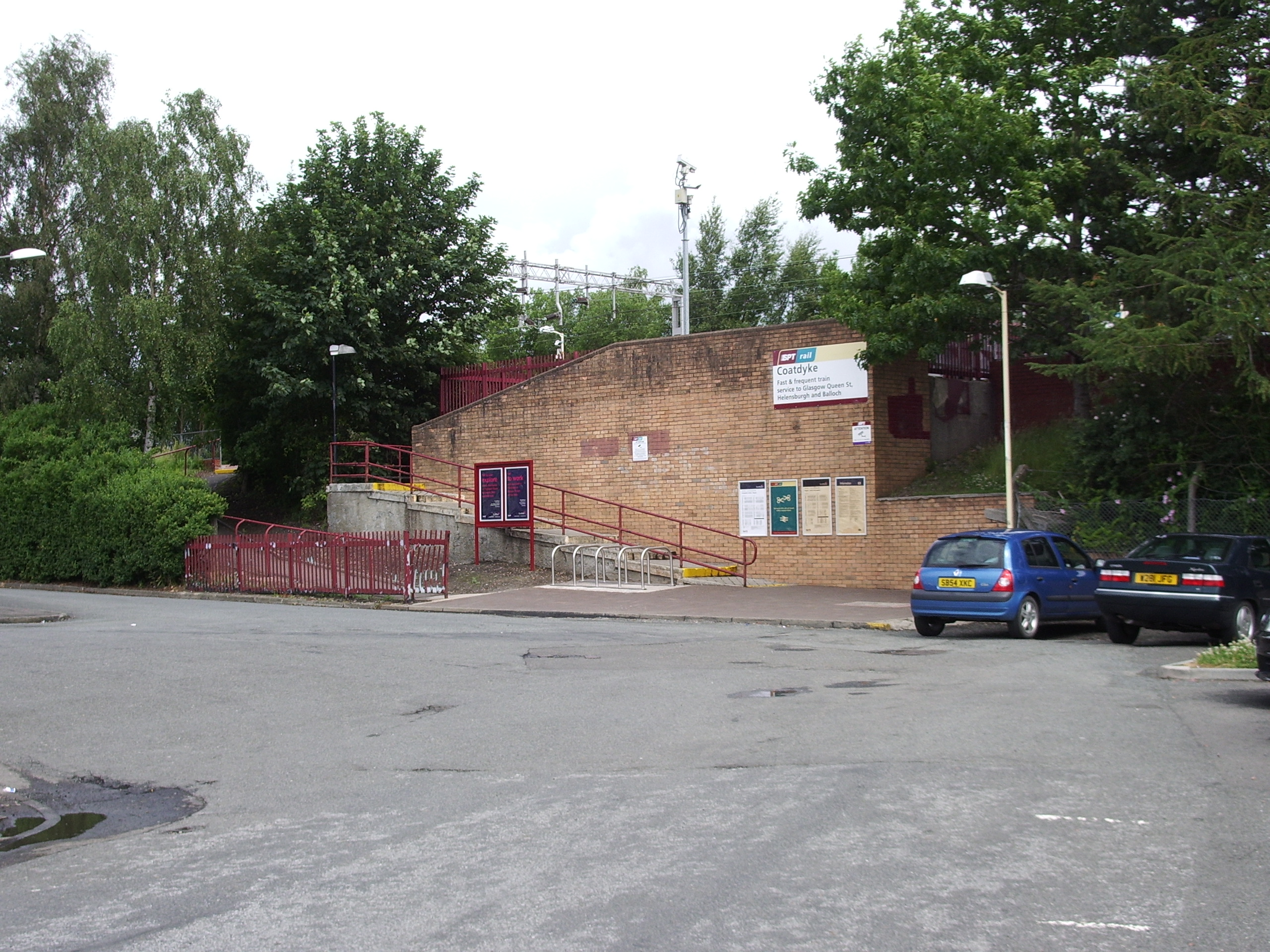 Coatdyke railway station, entrance, Coatbridge, Scotland, looking north